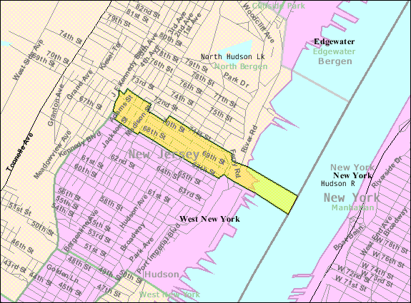 Census Bureau map of Guttenberg